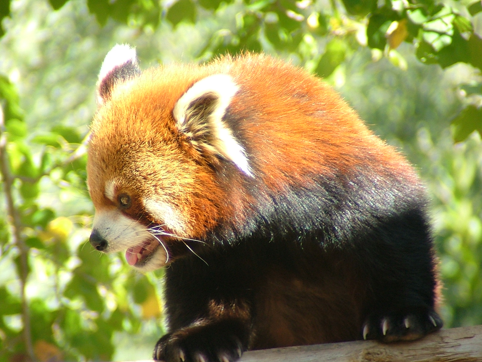 A Red Panda (Ailurus fulgens), named Simon, at the Jerusalem Biblical Zoo.